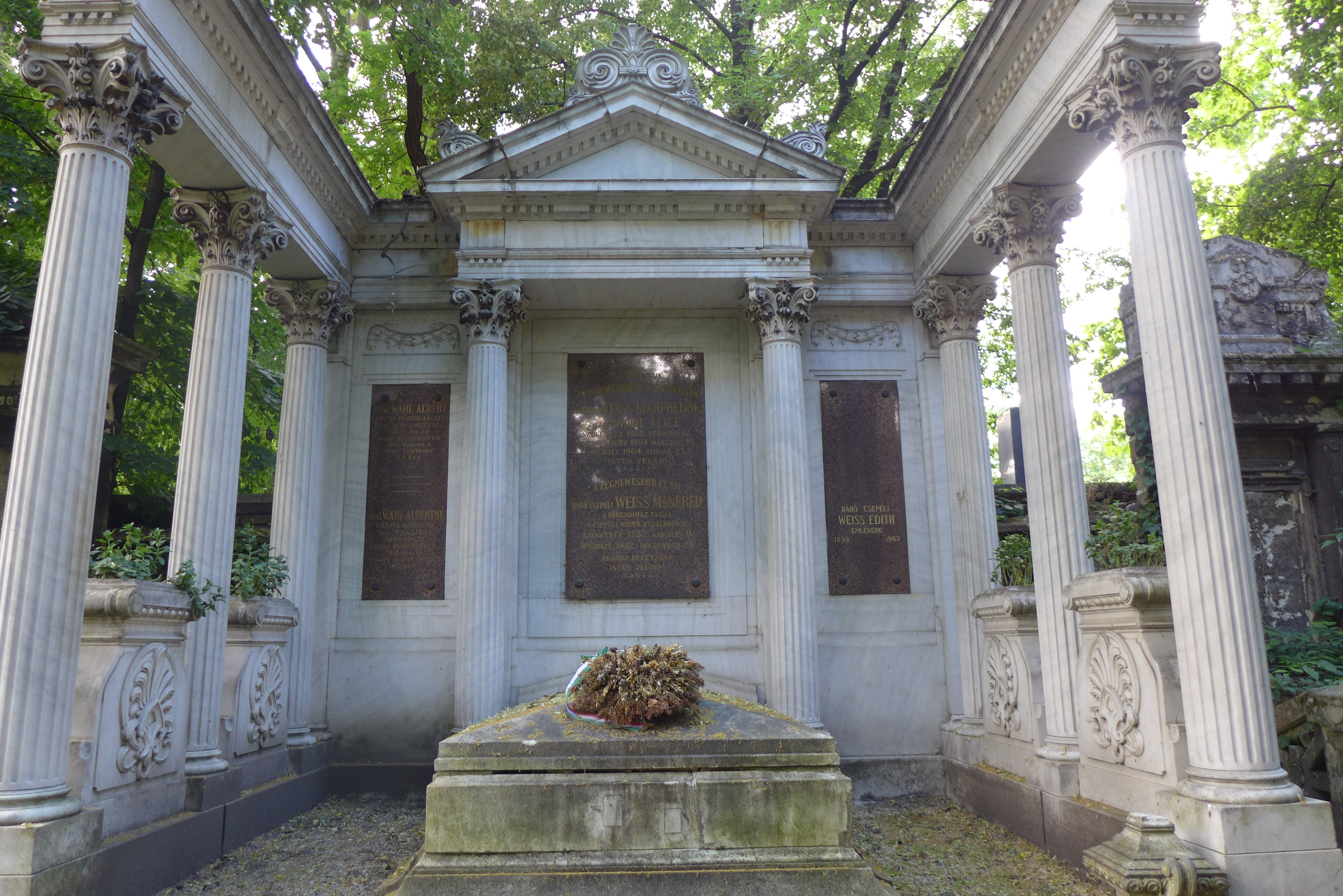 Jewish Salgotarjani cemetery in Budapest (Hungary)